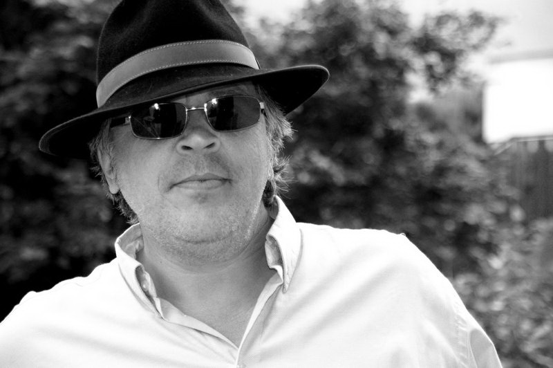 Kajo Lang